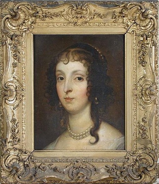 Portrait of Honora Burke (1674–1698) attributed to Theodore Russell